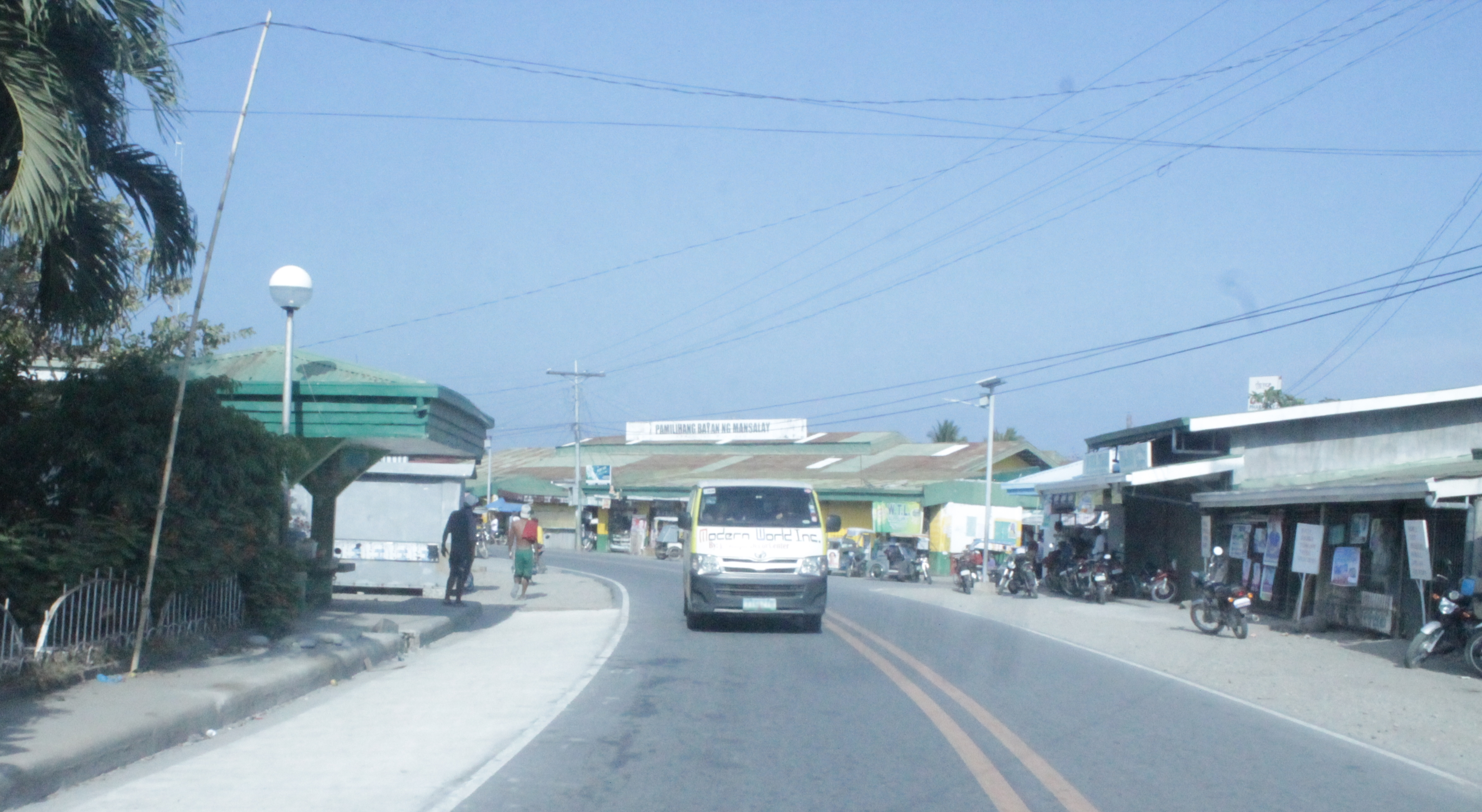 Road in Mansalay, Oriental Mindoro, Philippines with the public market in the background.